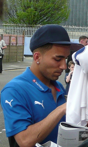 Aaron Lennon signing autographs